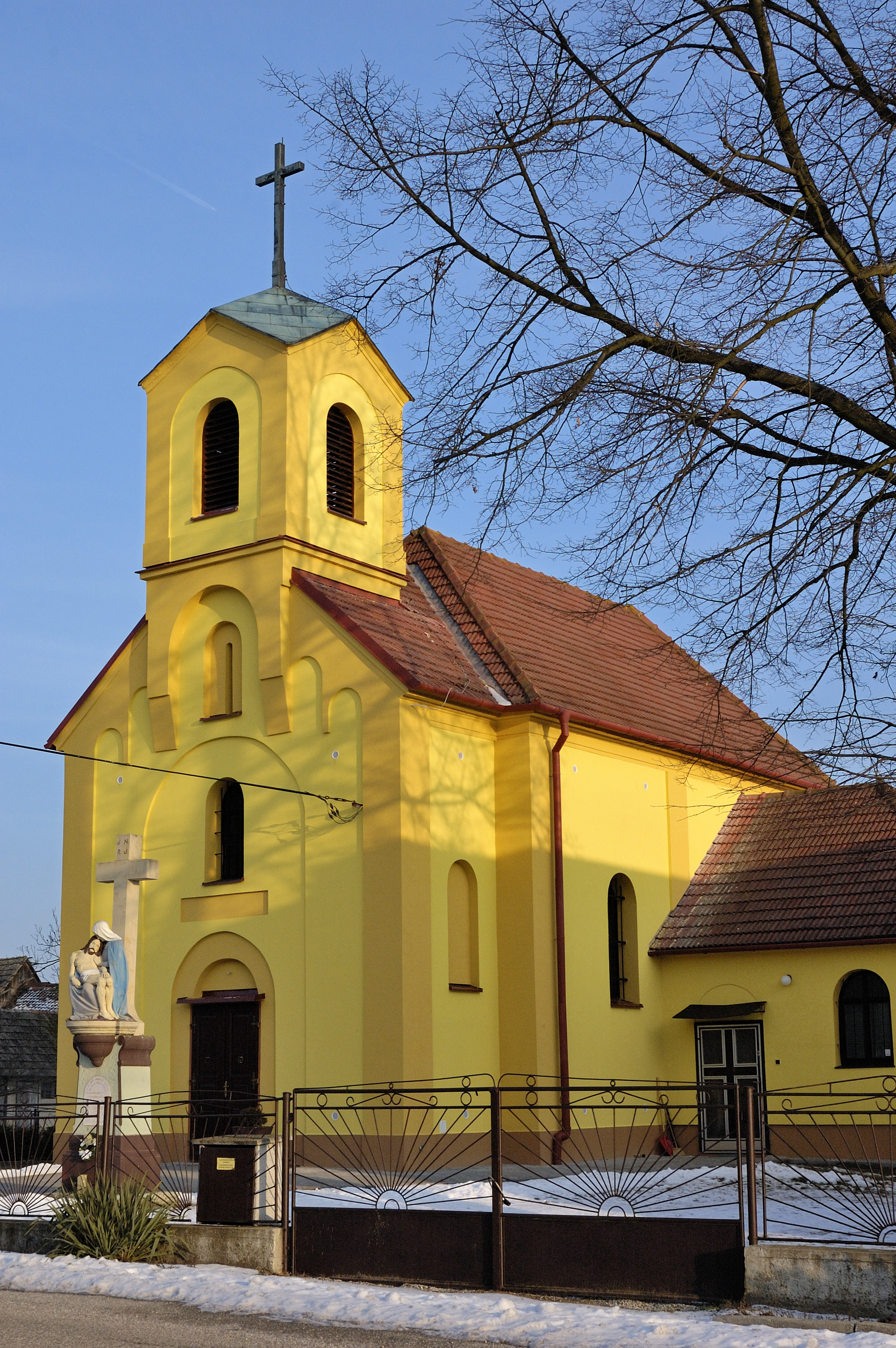 Church in Bílkove Humence